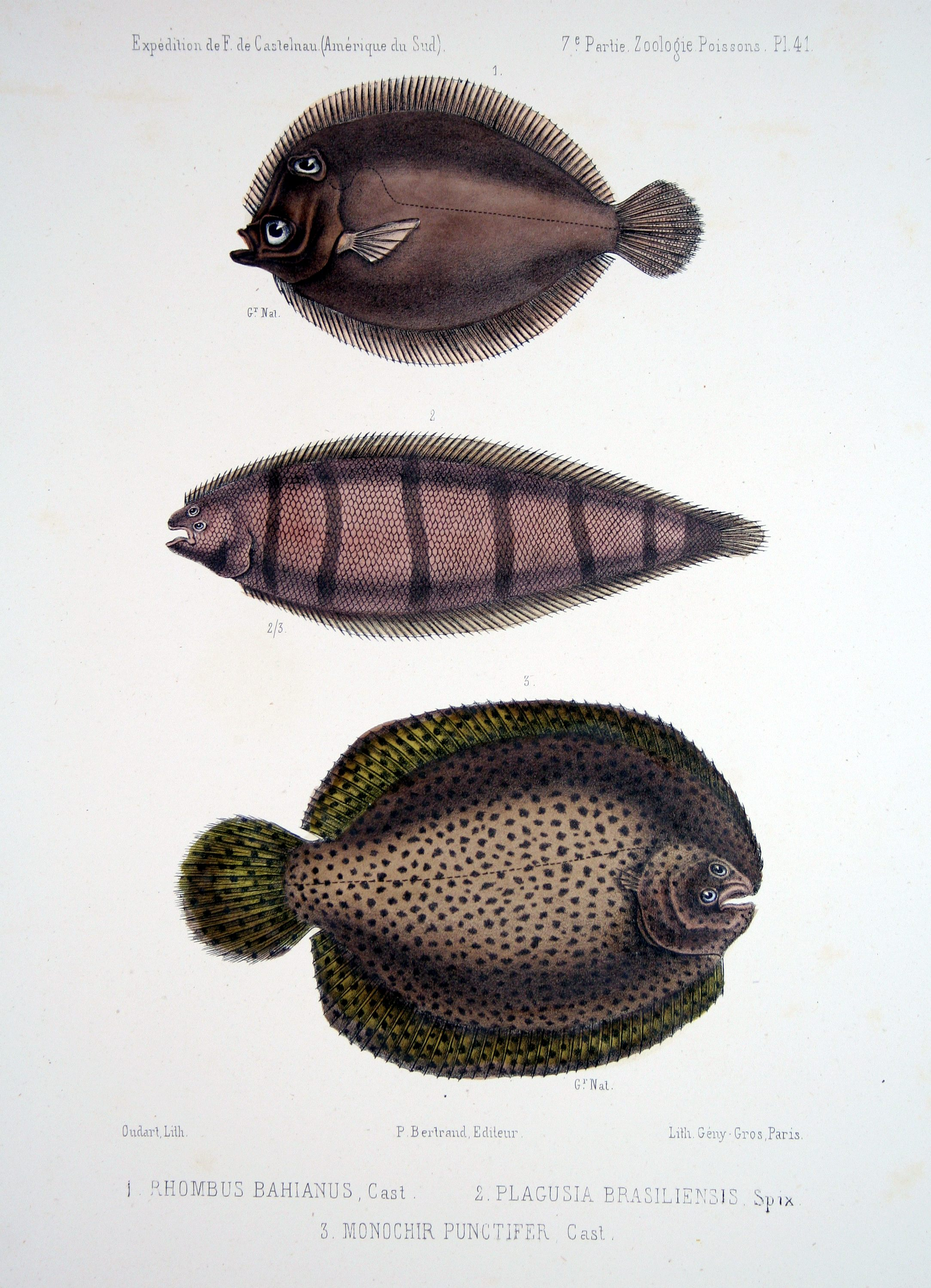 From top to bottom: Rhombus bahianus = Bothus ocellatus Plagusia brasiliensis = Symphurus tessellatus Monochir punctifer = Achirus achirus